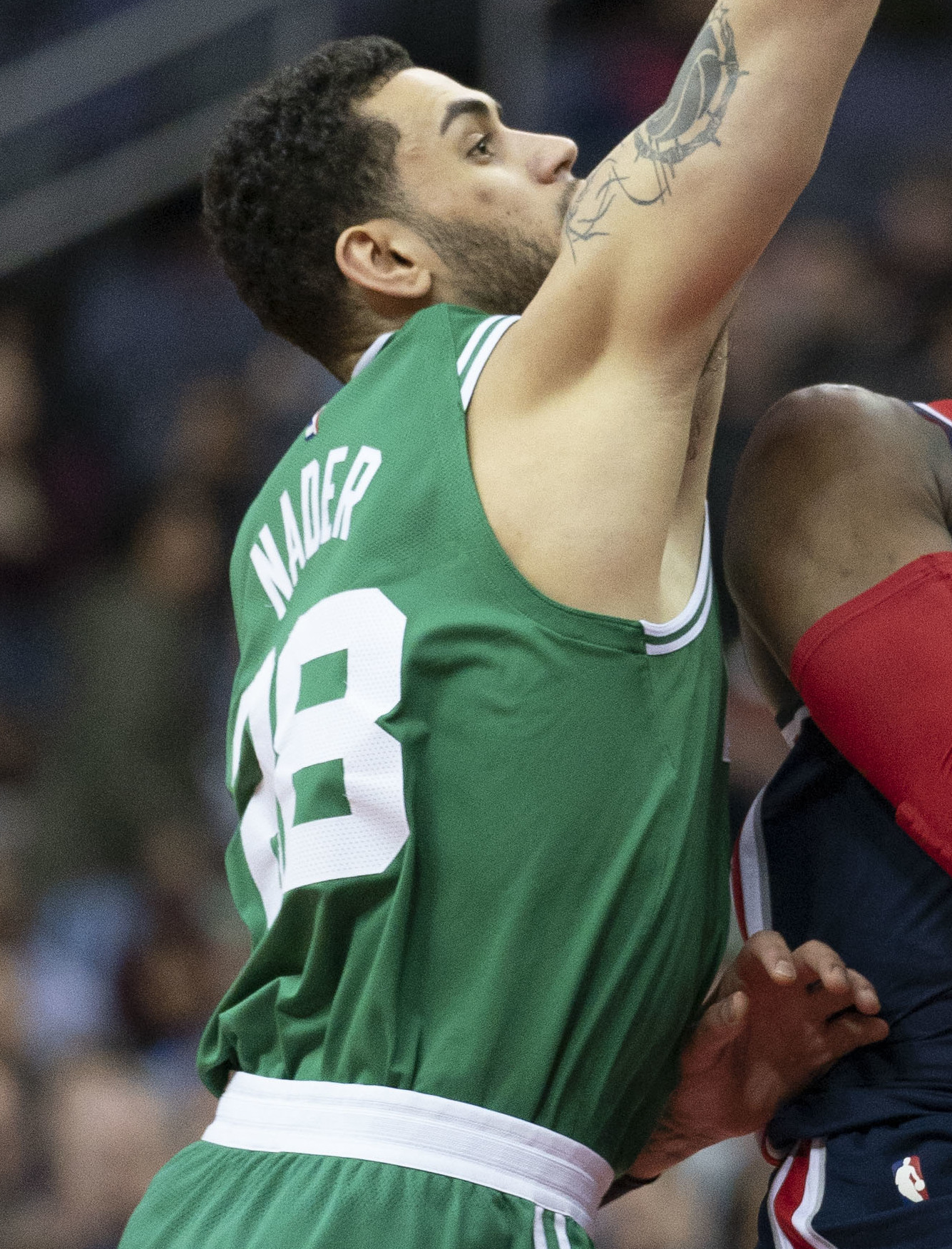 John Wall of the Washington Wizards attempts a layup against Abdel Nader of the Boston Celtics during a 2018 game at the Capital One Arena in Washington, D.C.